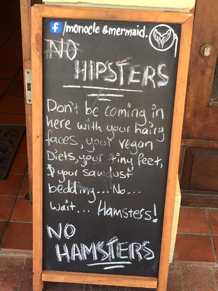 Sign at Monocle & Mermaid restaurant in Simon's Town, South Africa